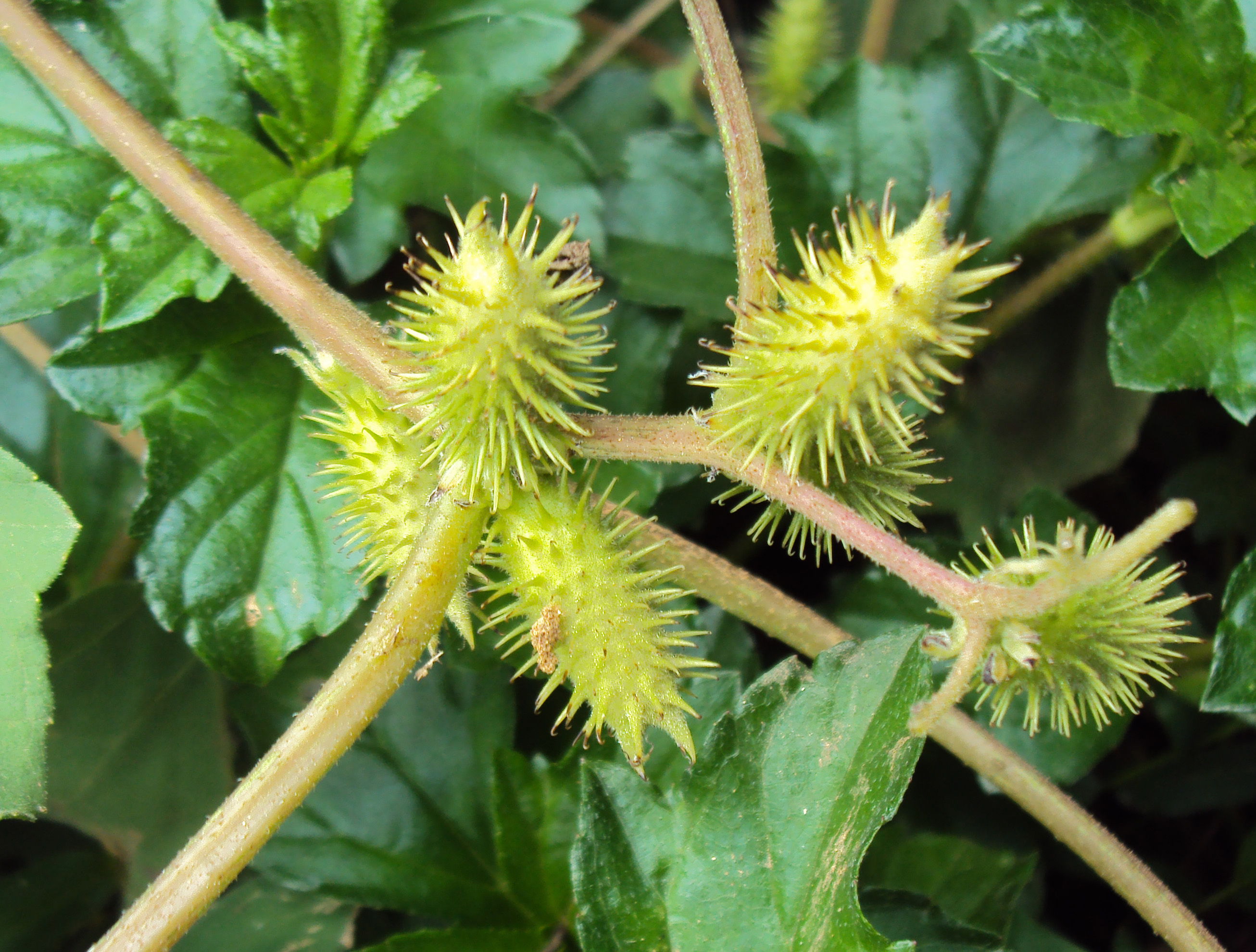 Xanthium indicum